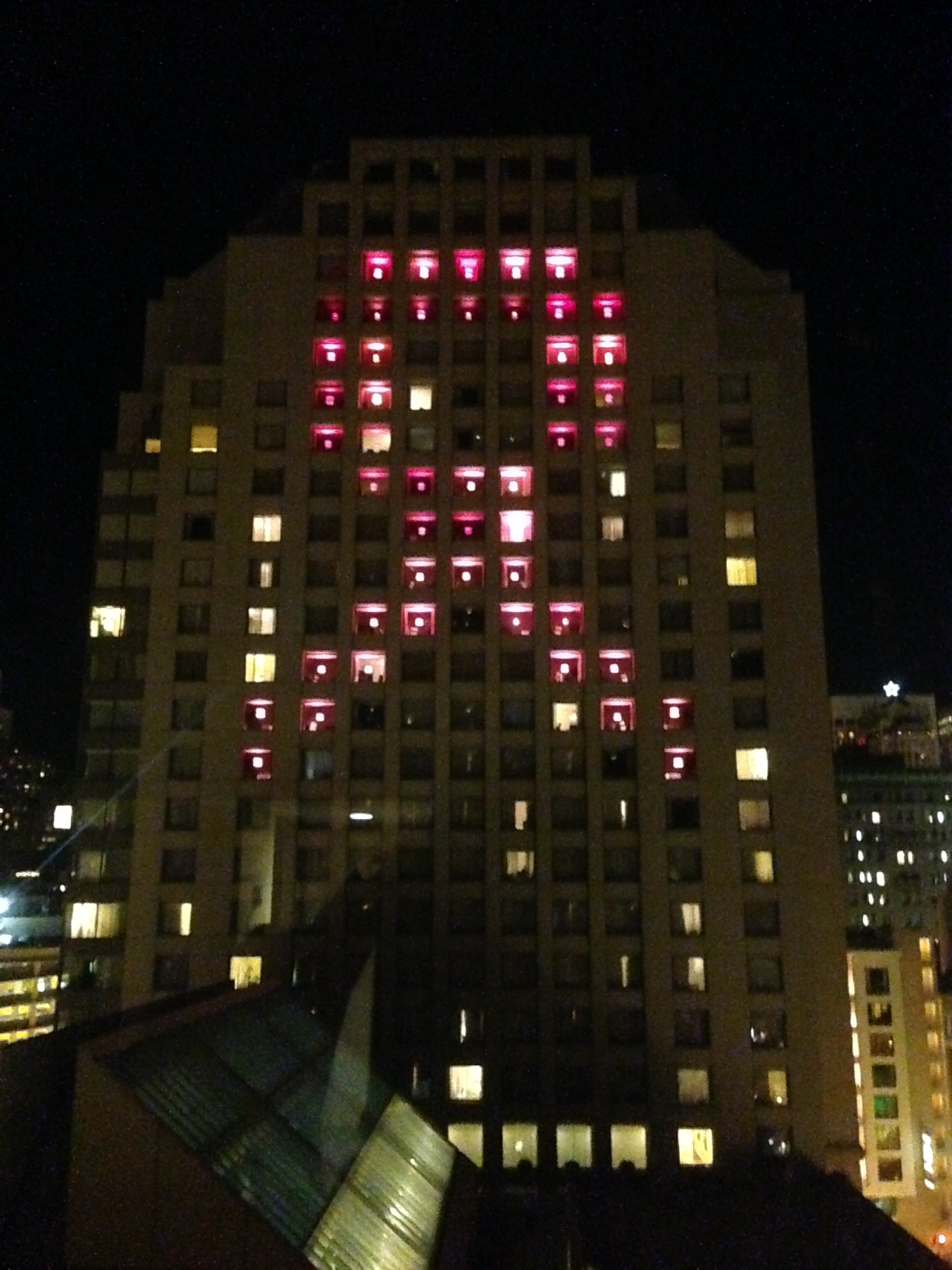 Breast Cancer